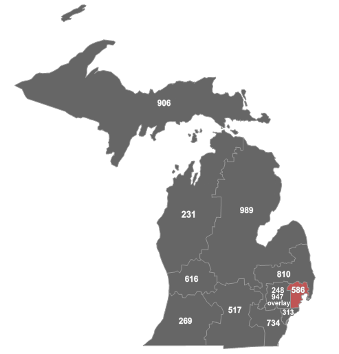 Area code map of Michigan highlighting the region covered by area code 586